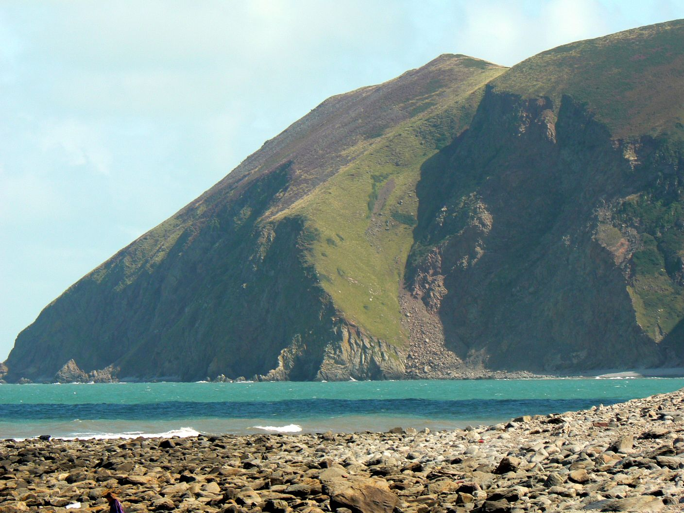 Lynton coast